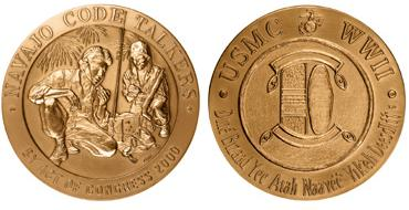 Front and Back of Congressional Gold Medal awarded to Navajo Code Talkers